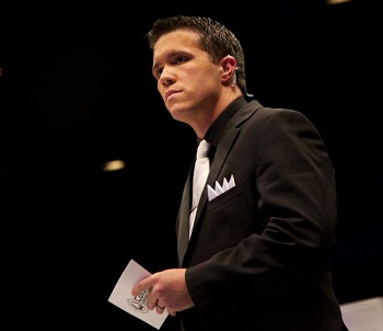 Ring Announcing - Cage Warriors